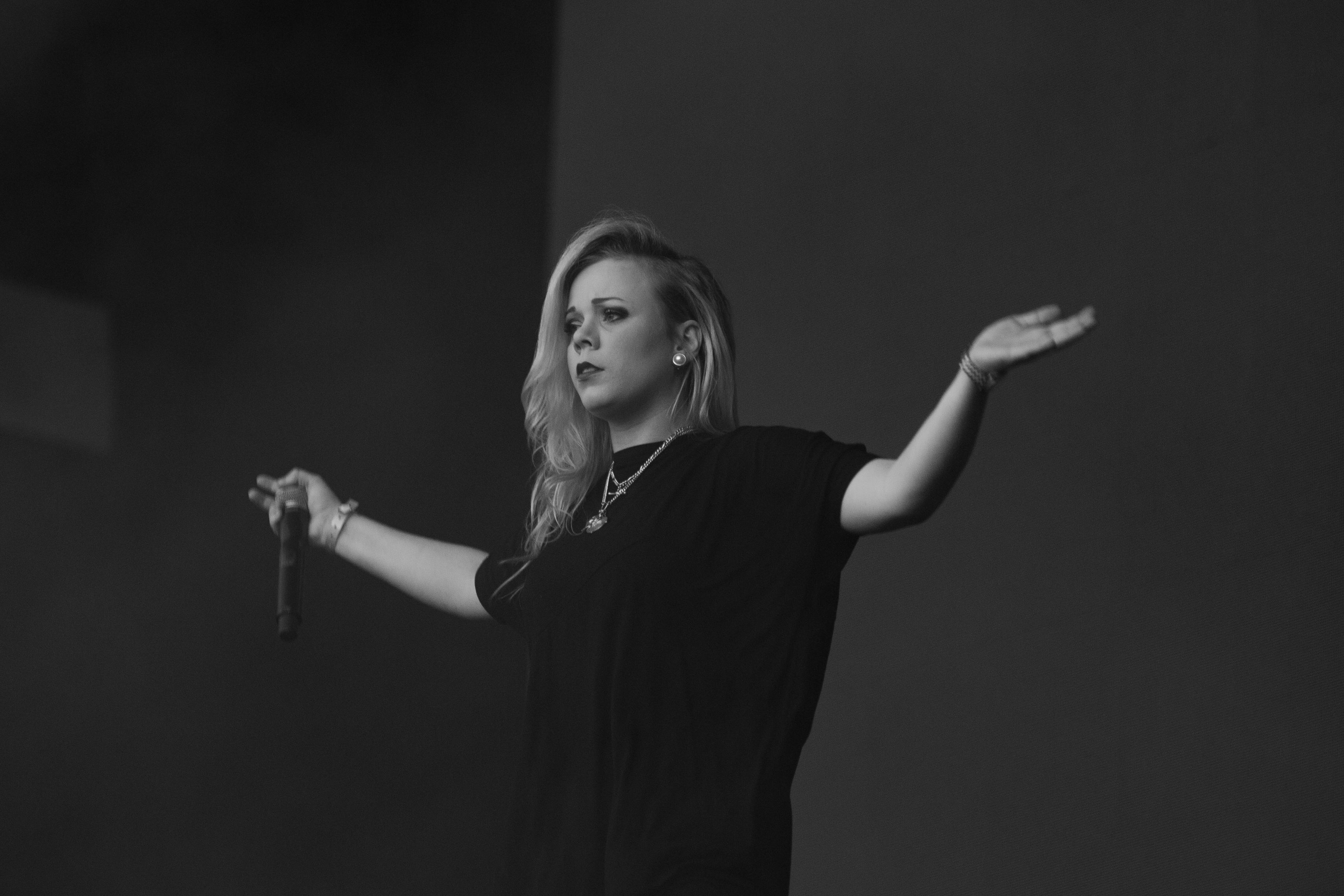 Ostblockschlampen at SonneMondSterne 2018, Mainstage